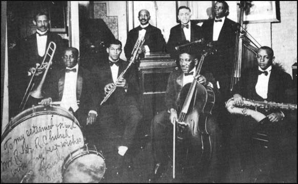 W.C. Handy is pictured with his Memphis Orchestra ca. 1918, in center rear, wearing a moustache, holding his trumpet. - Band Members L-R Sylvester Bevard?, Jasper Taylor?, unk, W.C. Handy, Darne; PUBLIC DOMAIN; - The inscription by Handy reads: To my esteemed friend Mr. Robt. R. Church, with my best wishes. W.C. Handy _?_ 3, 1918 See talk page for further discussion.